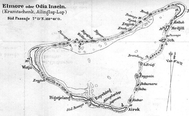 German map of Ailinglaplap Atoll in the Marshall Islands (1881)